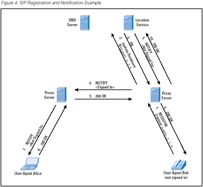 Example